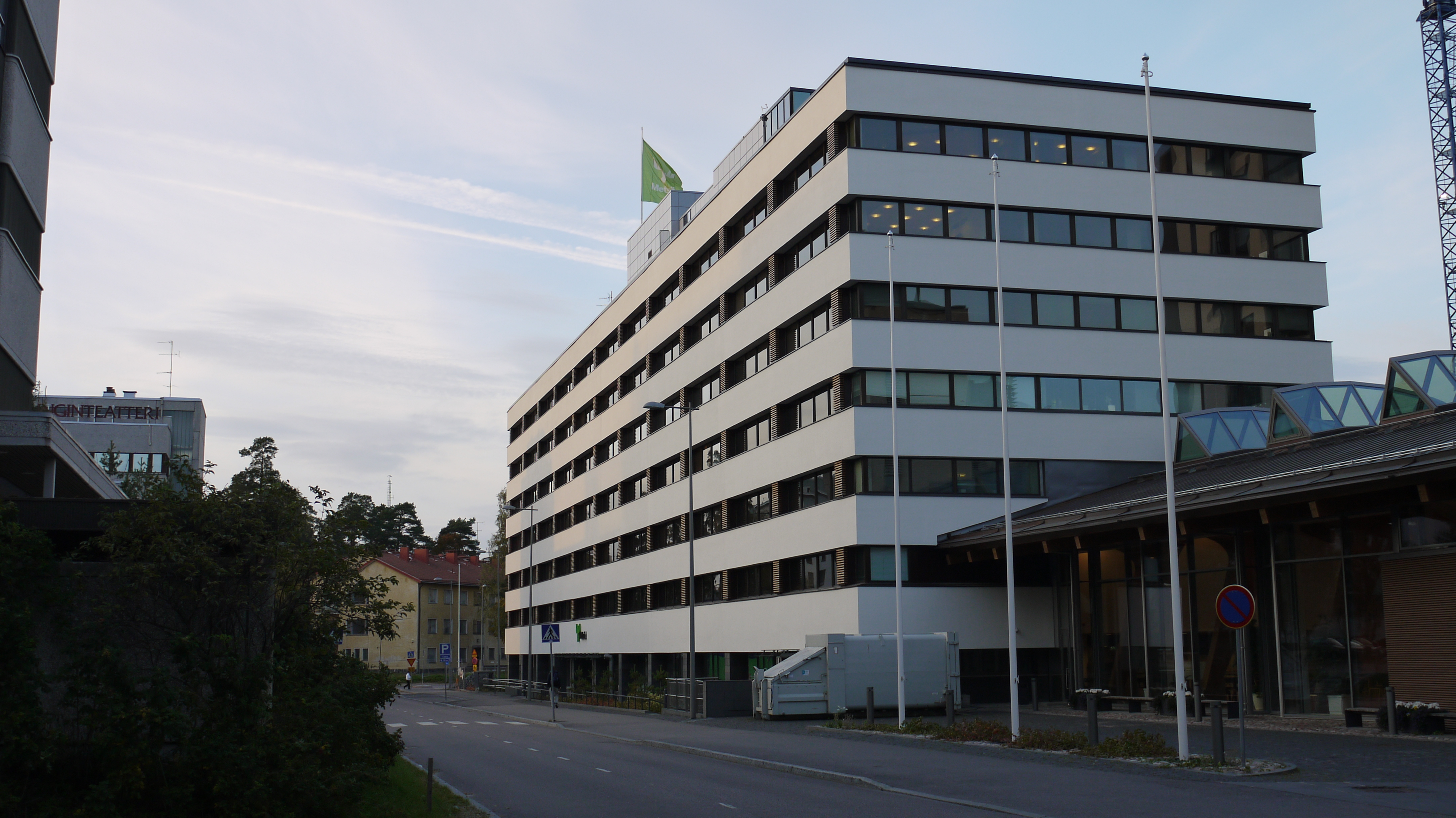 Head quarters of Metsä Group in Tapiola, Espoo